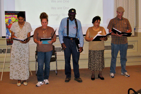 Participants in WHo We Are